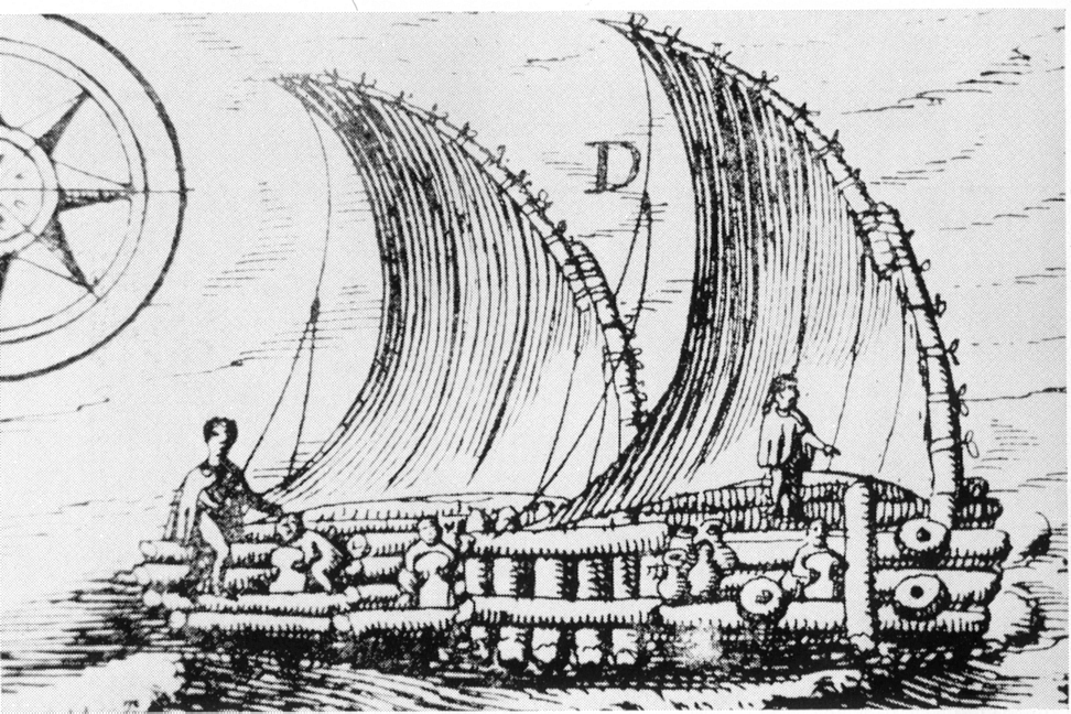 A drawing of a raft (balsa) near Guayaquil, Ecuador from a book published in 1748. The drawing resembles the description given by 16th century Spanish explorers of the rafts used by Indians on the Pacific Coast of South America.